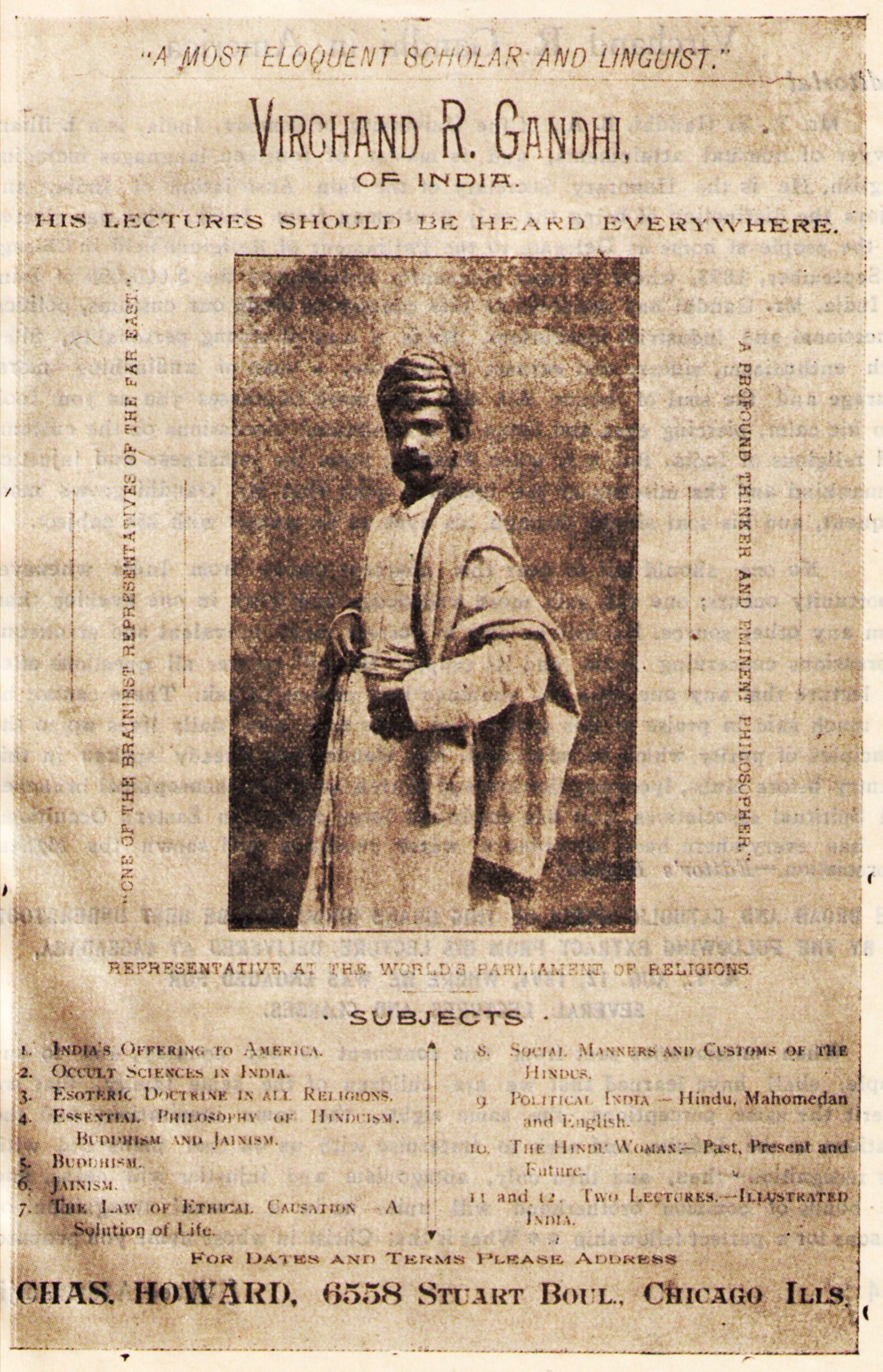 It is a poster announcing lecture by Virchand Gandhi, a Jain Scholar who represented Jainism at first World Parliament of Religions,Chicago-1893. Other information It is a poster announcing lecture by Virchand Gandhi, a Jain Scholar on various subjects in US who represented Jainism at first World Parliament of Religions,Chicago-1893.